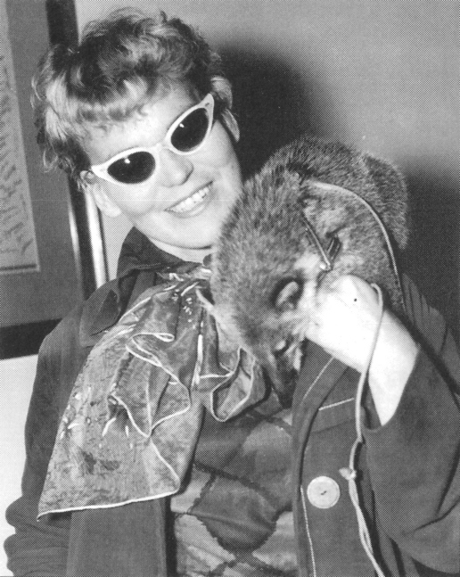 Photograph of the Finnish explorer and adventurer Helinä Rautavaara (1928–1998) with a pet.